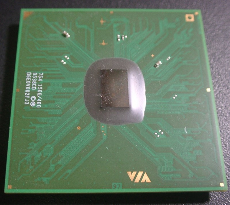 Photo of VIA C7. Used with permission of photographer, "Lither". [1][2]